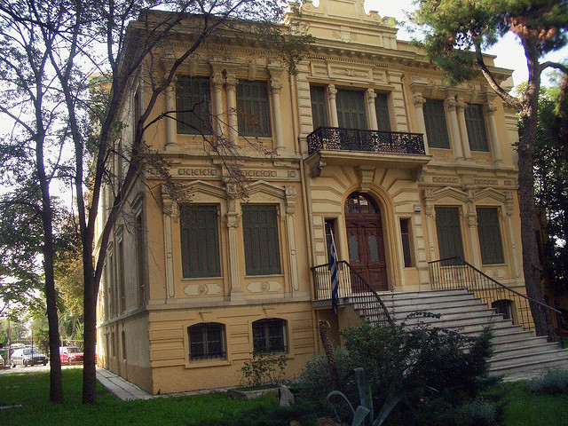 The old orphanage "Melissa" (former Bulgarian consulate) at Vassilisis Olgas Street, Thessaloniki.